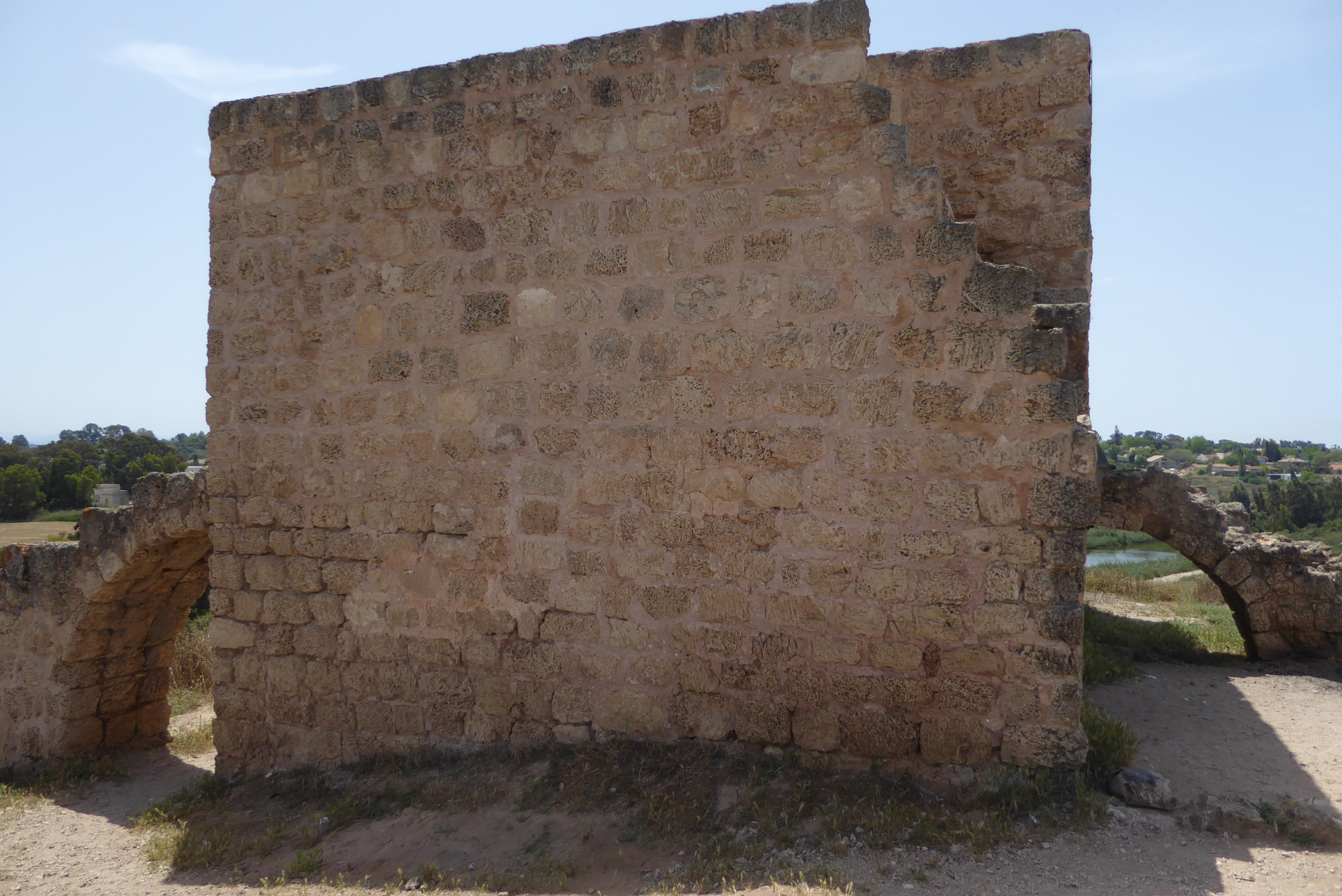 Alexander Stream